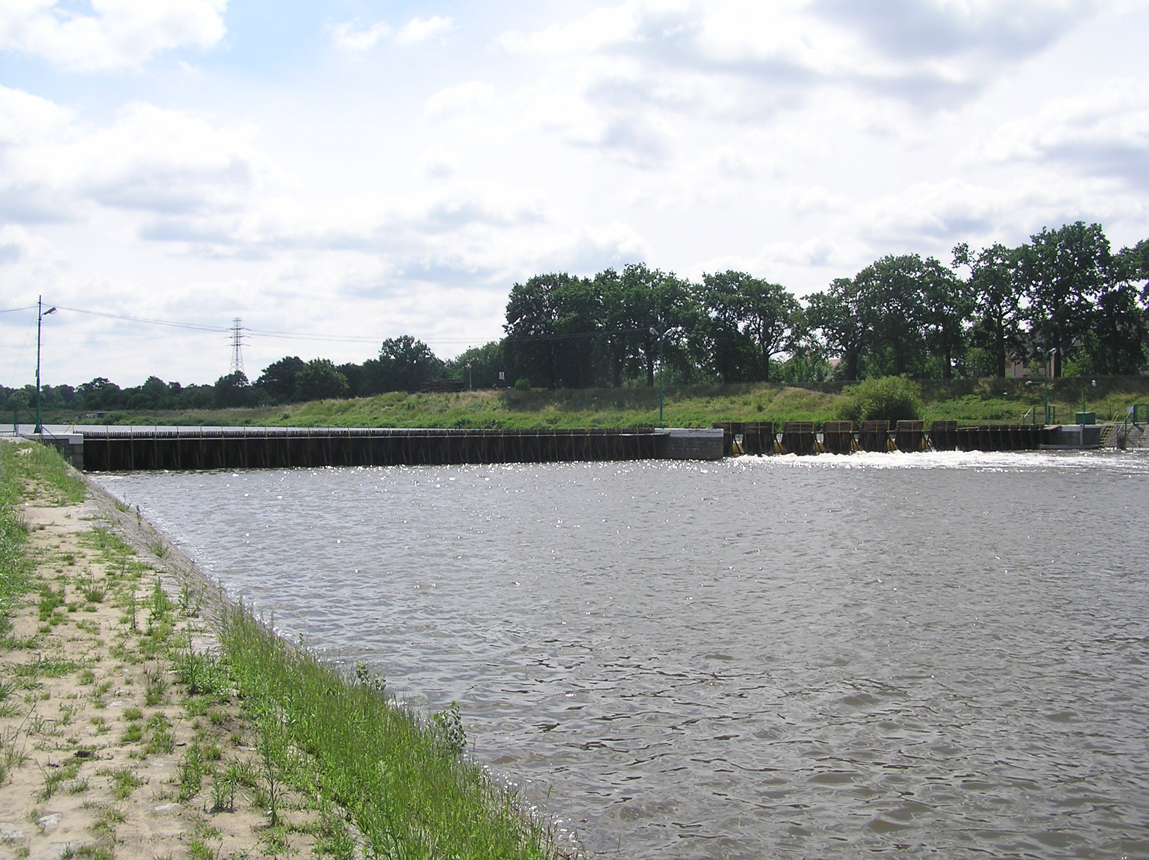 Wrocław, Psie Pole Weir